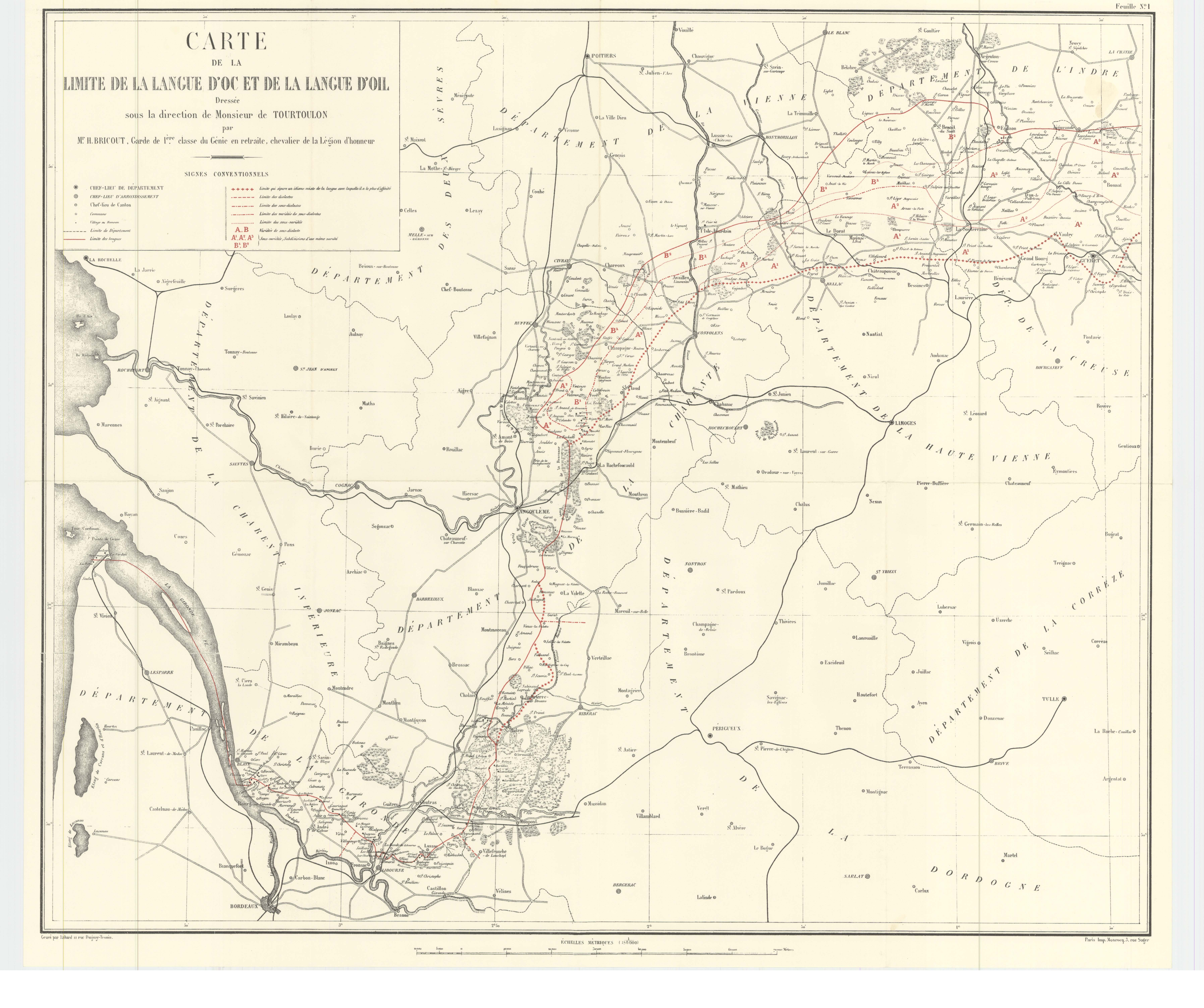 map of the oc-oil languistic limit in France, western part